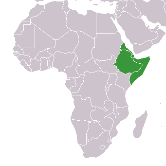 Horn of Africa. Modified from the PD Image:BlankMap-Africa.png.